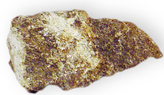 Gruenerite Schist Metamorphic Rock North of Keystone, South Dakota